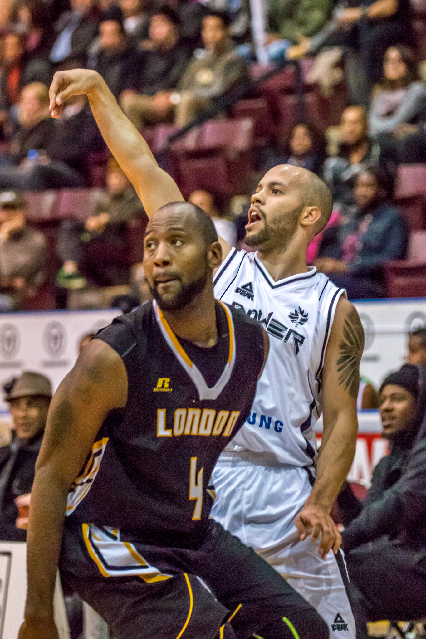 The Mississauga Power's Tyrell Vernon tries to get a shot past the London Lightning's Elvin Mims.